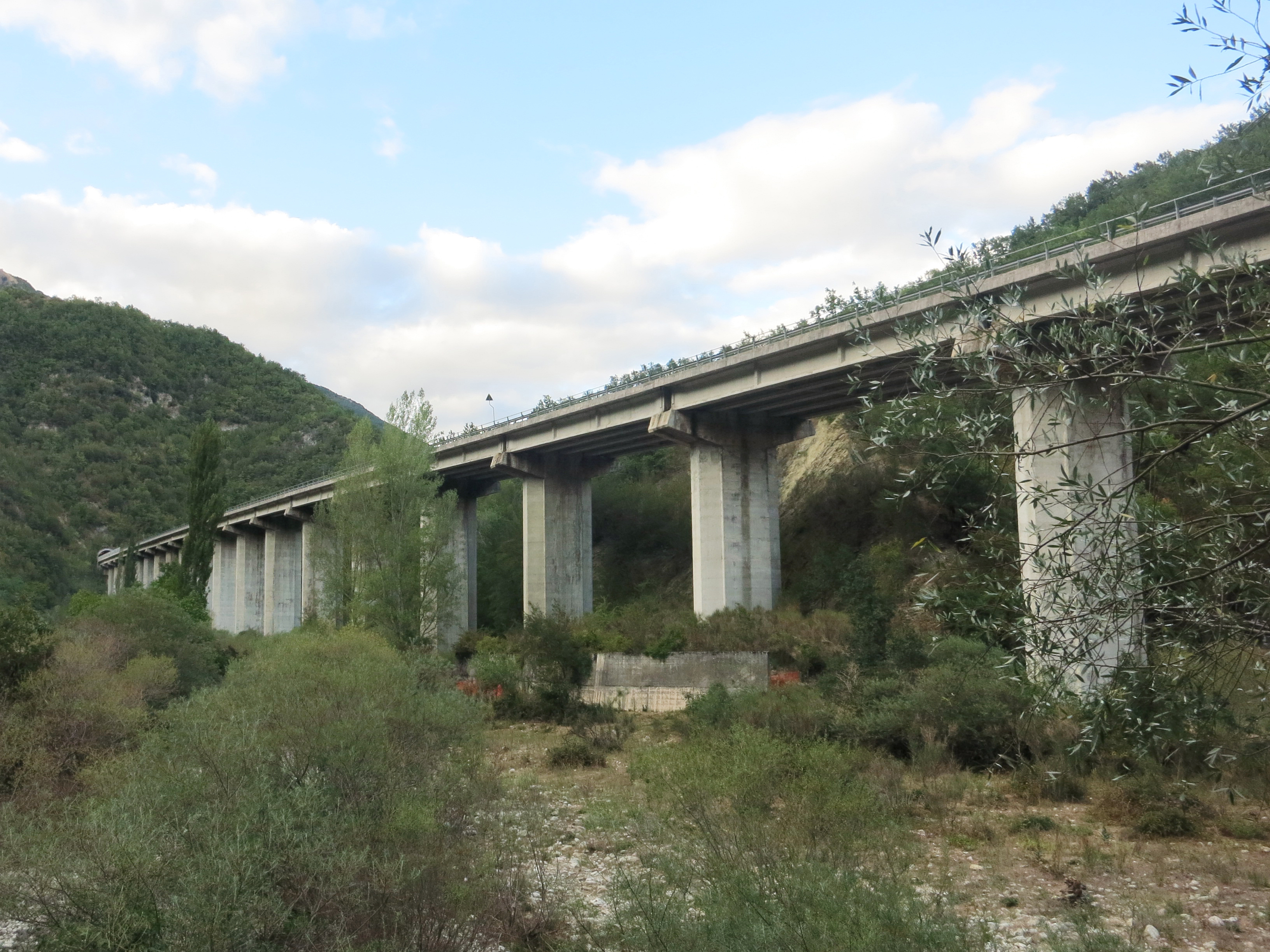 The Velino viaduct, 1120 metres long, located between the kilometre 105,5 and 107,6 of Italian State Highway 4 "Via Salaria" (between the villages of Micigliano and Posta, in the province of Rieti). Picture taken from the local road to the village of Sigillo, which passes under the viaduct.